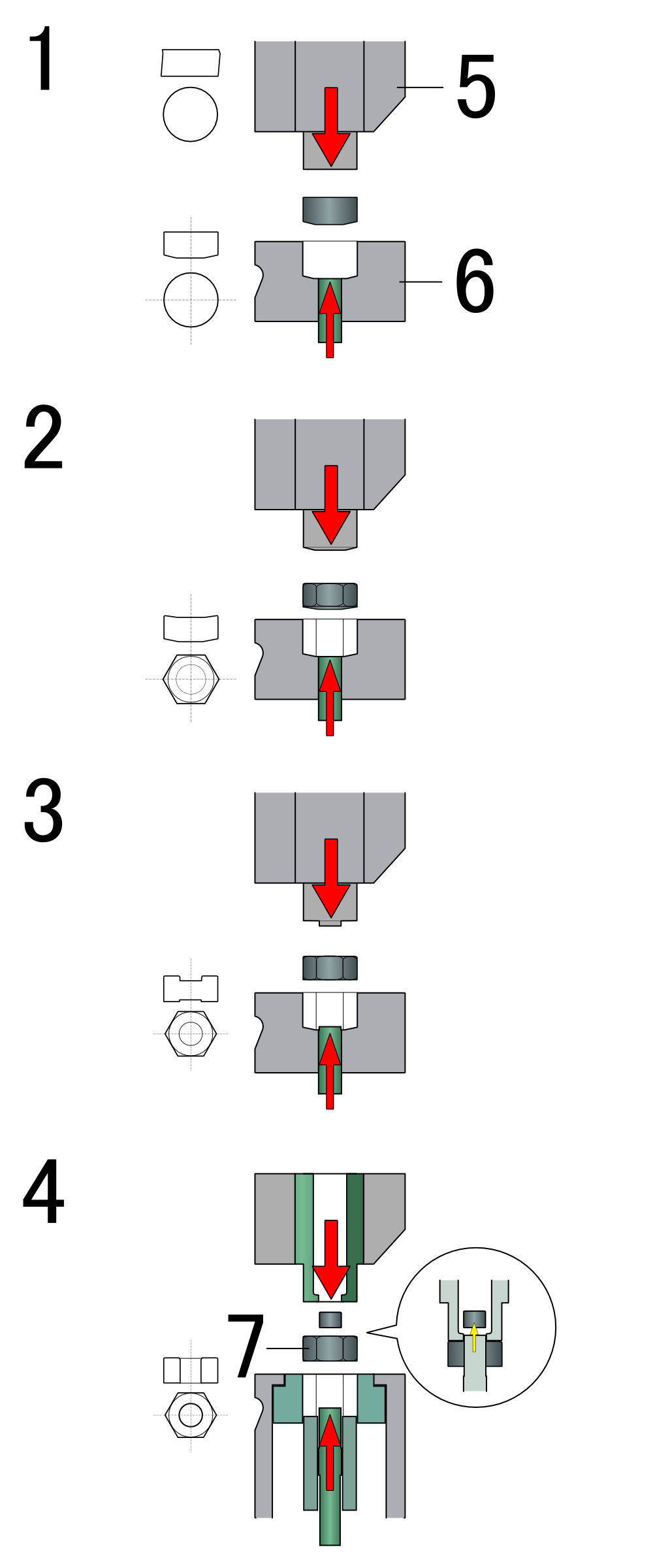 Screw (bolt) 17-n